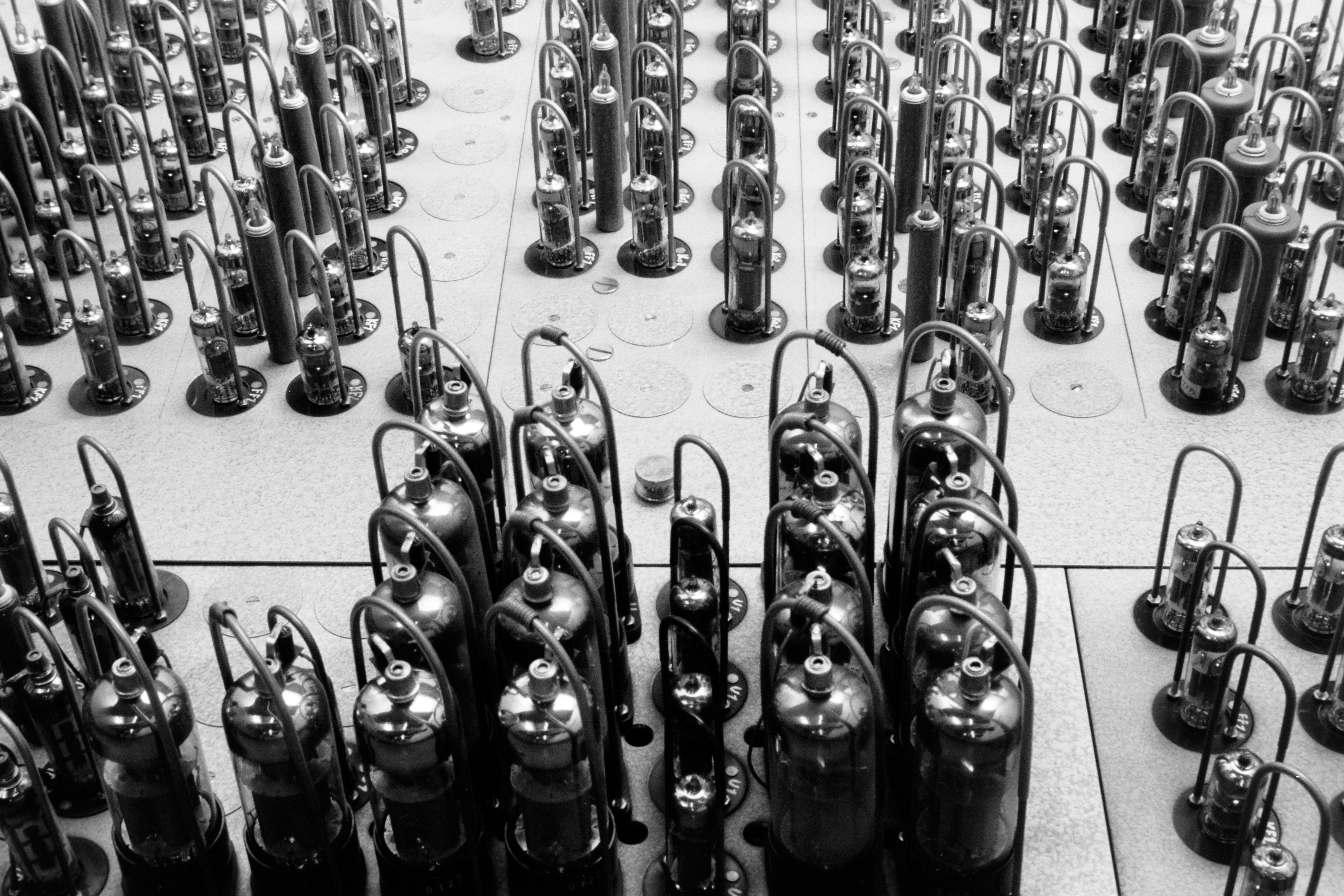 G3 Computer at the Max Planck Institute for Physics, Munich 1966: In the background, parts of processor registers, each bit with a double triode as storage and a glow lamp as display; in the centre foreground power pentodes directly driving the line printer hammers